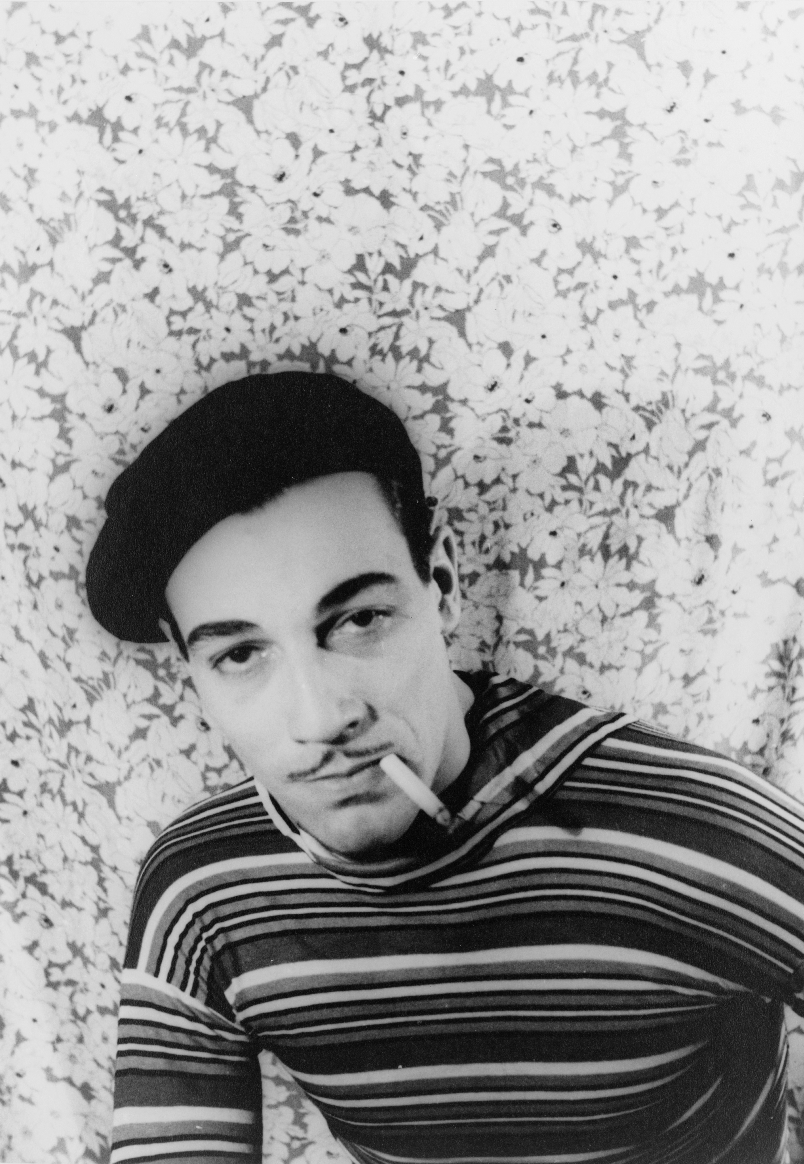 Cuban-American actor Cesar Romero, February 23rd 1934